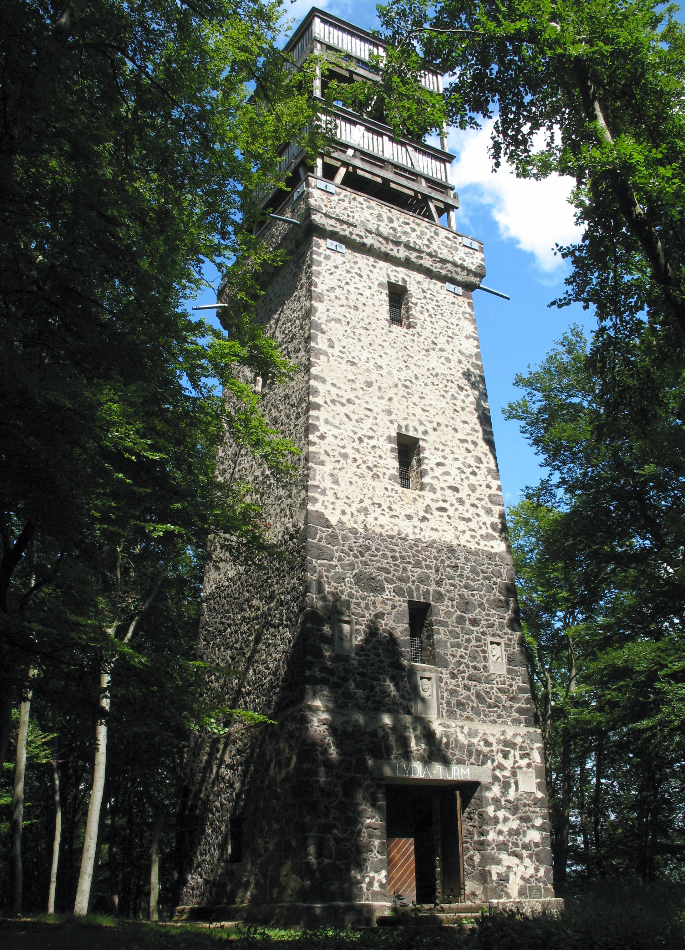 View tower in Wassenach in Rhineland-Palatinate, Germany